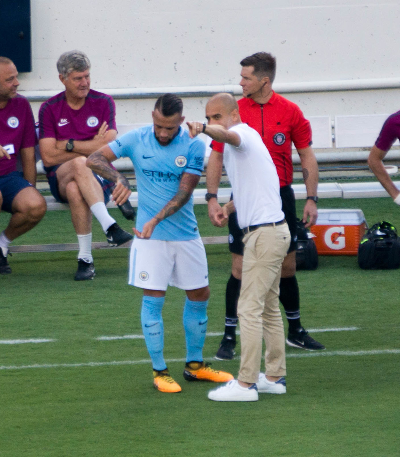 Manchester City vs Tottenham Hotspur at Nissan Stadium in Nashville, TN